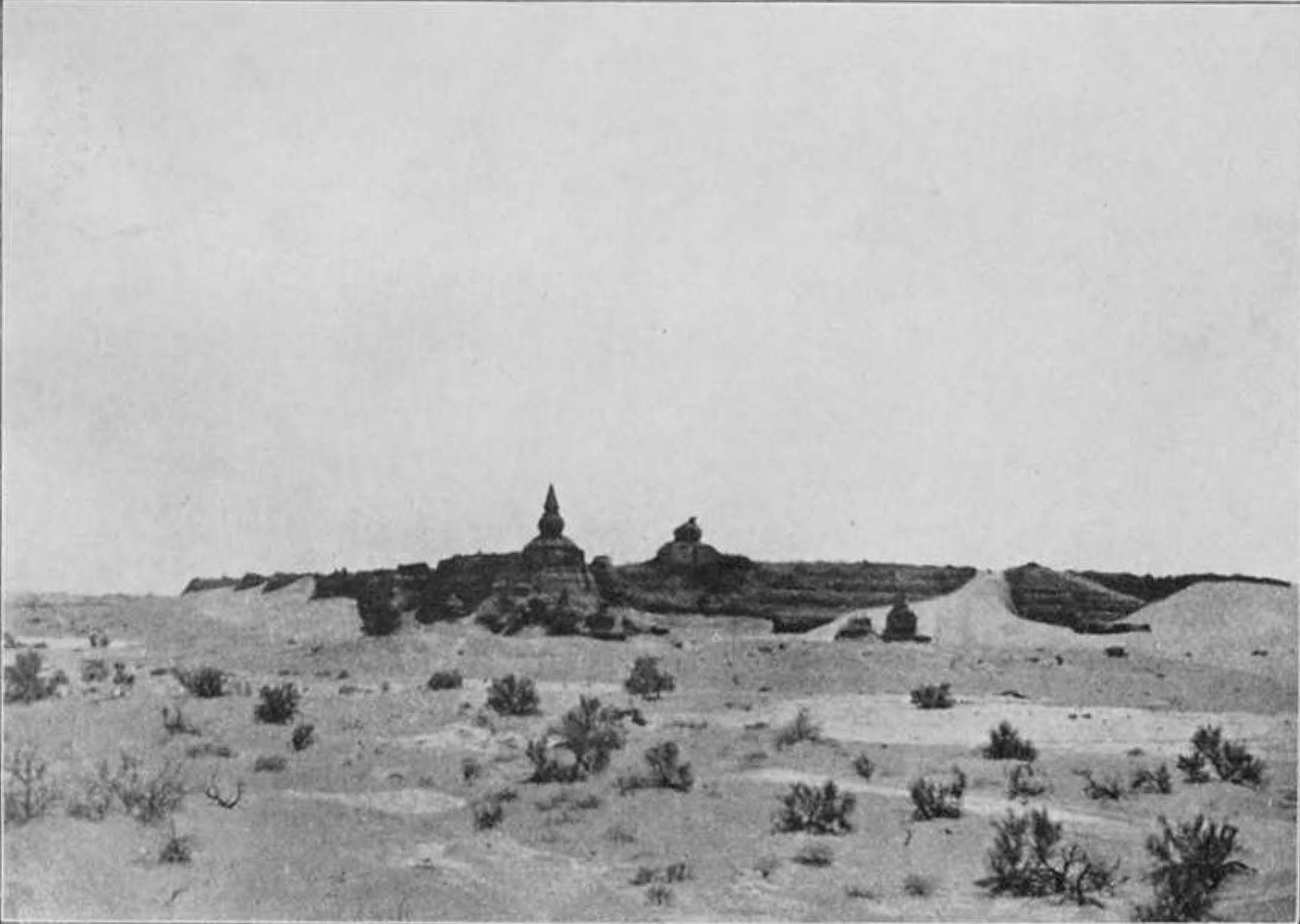 Khara-Khoto from north-west